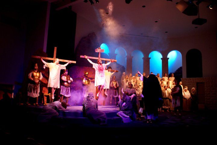 Crucifixion during Lighthouse Christian Church's 2010 production of "The Promise: The Power of His Love"